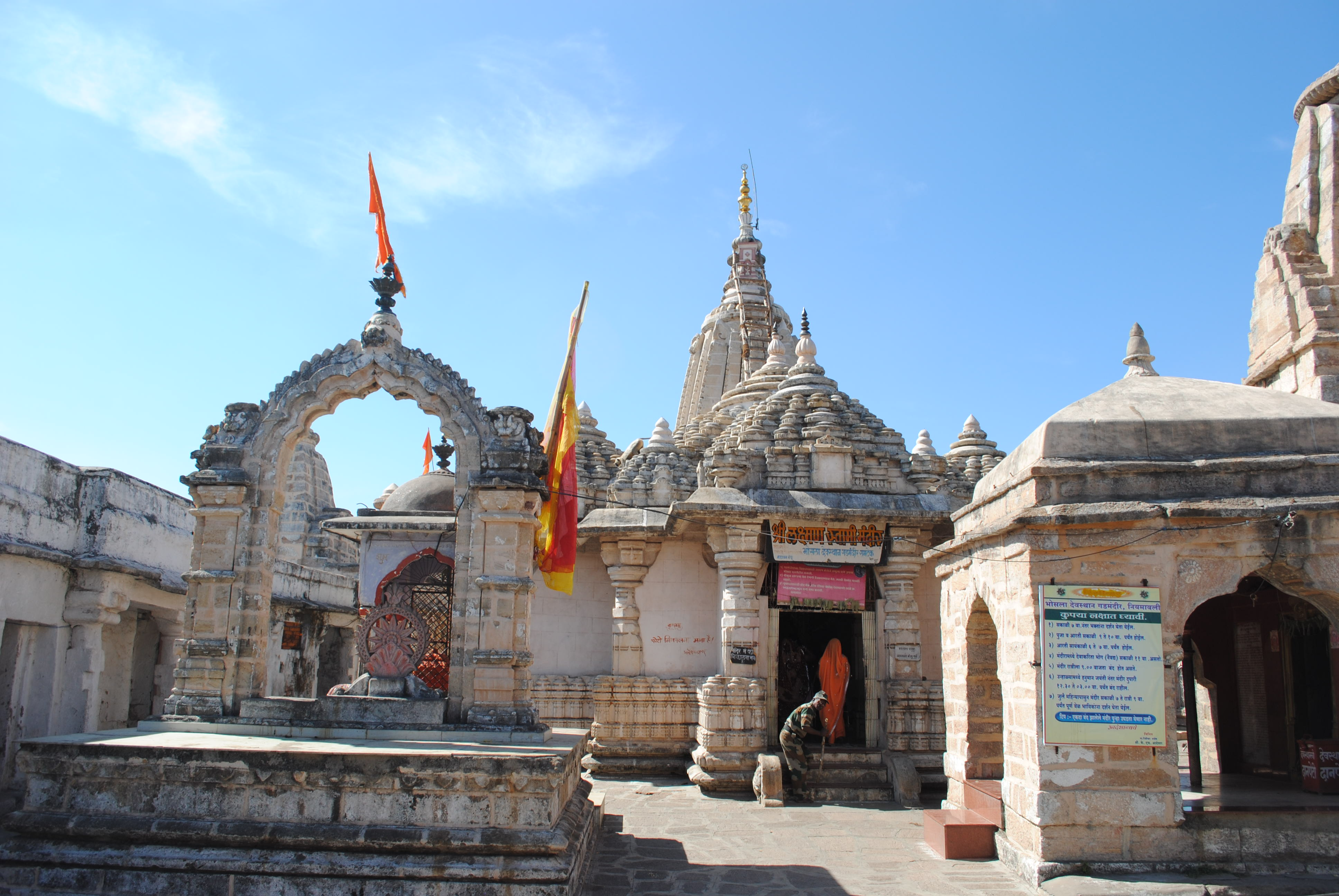 The Ram Temple in Ramtek is a temple dedicted to Lord Ram. Legend says that Lord Rama stayed for awhile at Ramtek, along with his wife Sita and brother Lakshmana, while on his exile. Kalidasa wrote his epic poem, Meghdoot in the hills of Ramtek.